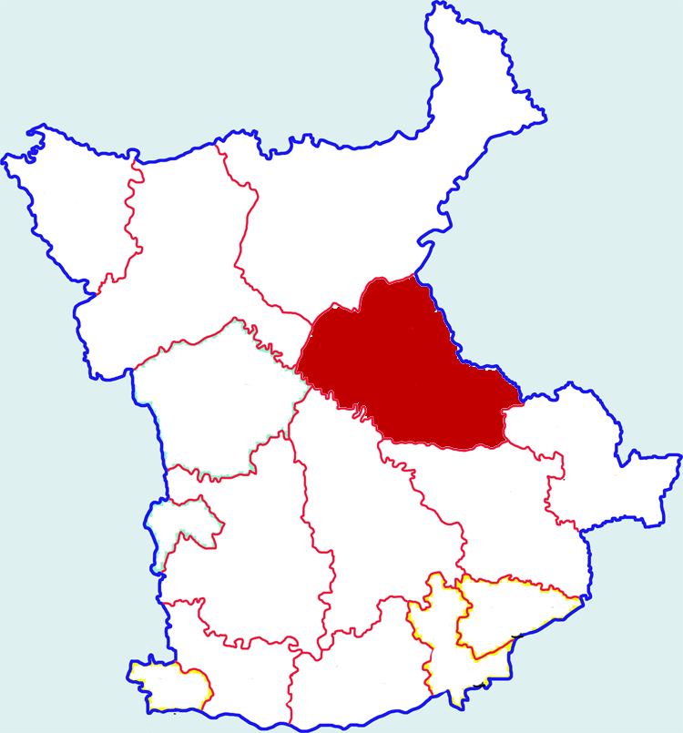 Location of Chunhua county in Xianyang city, China